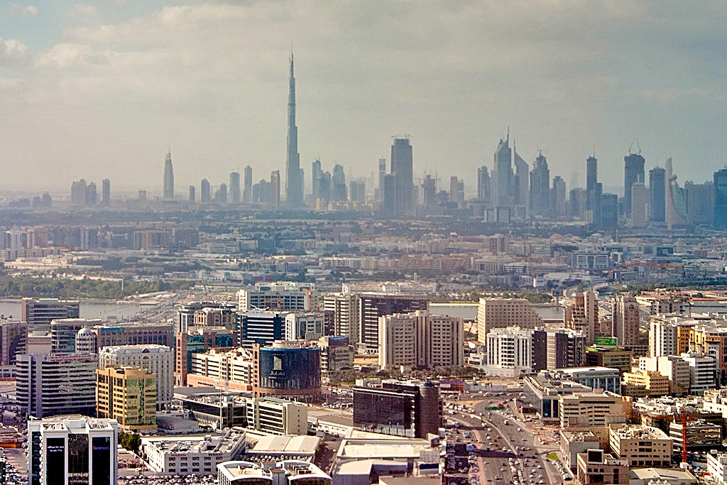 View to the Dubai, UAE from the plane window